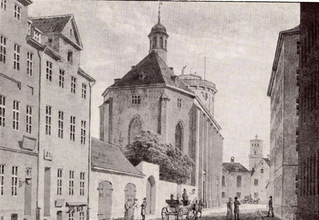 Watercolour of Landemærket with Trinitatis Churh in Copenhagen, Denmark